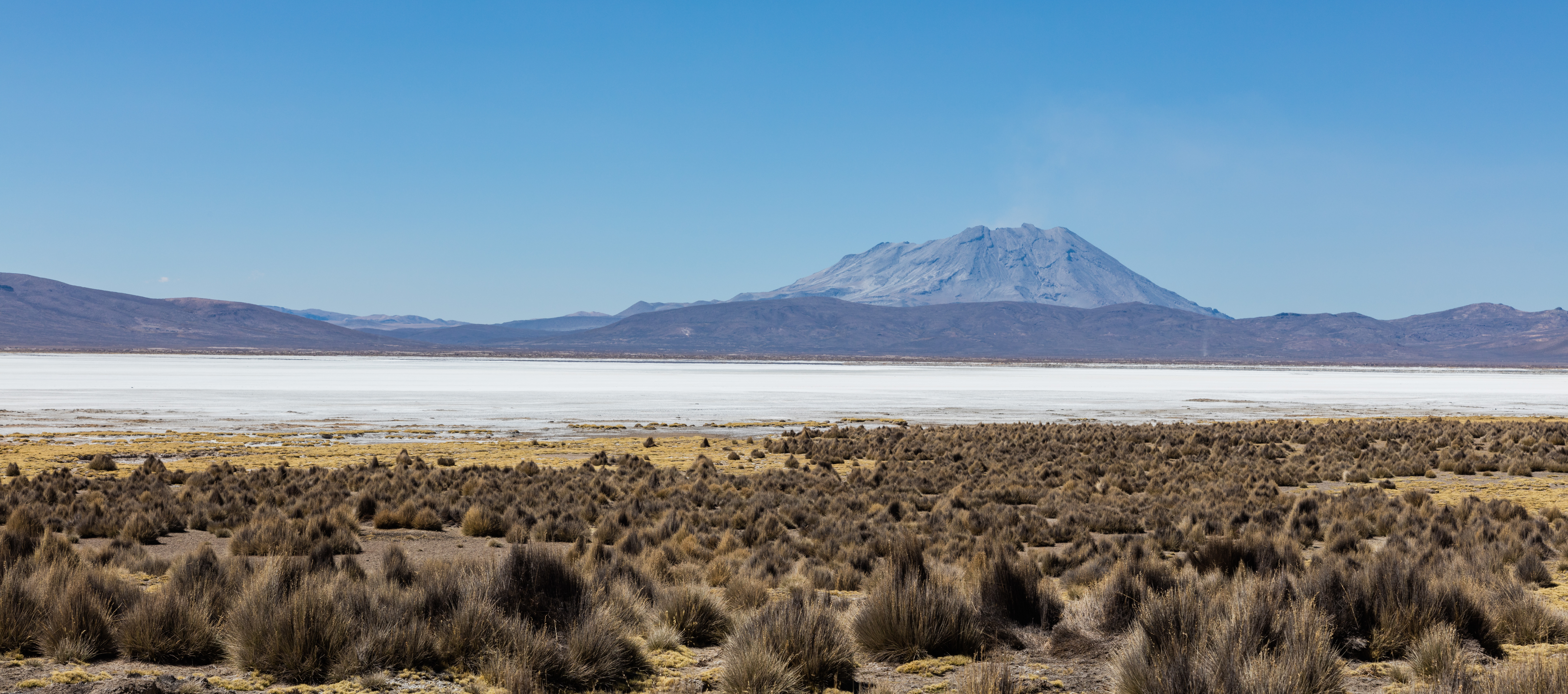 Ubinas volcano and Salinas lagoon, Arequipa, Peru